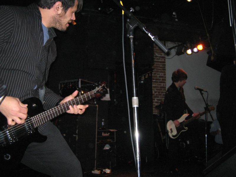 Project 86 guitarist Randy Torres performing in San Luis Obispo, California.